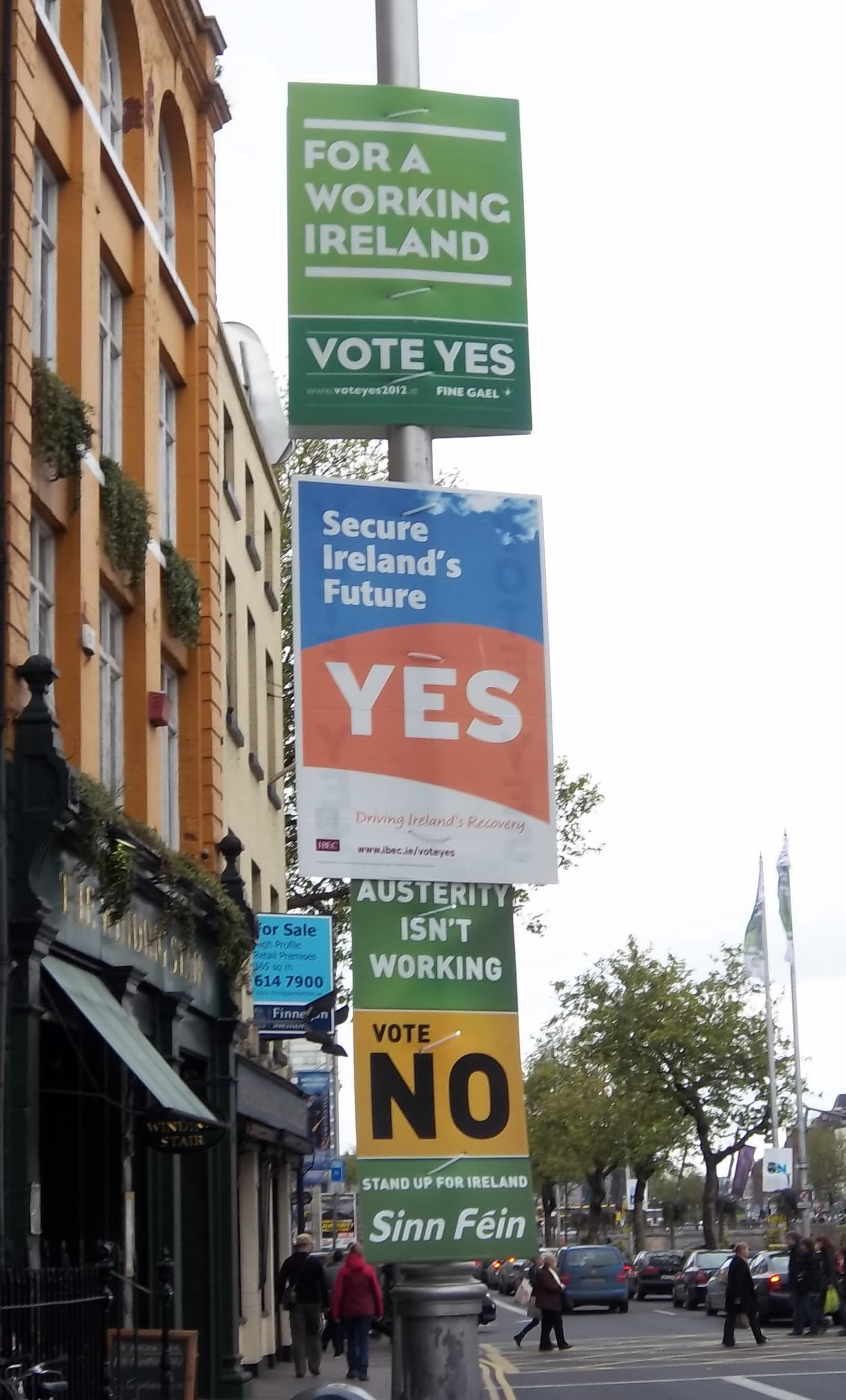 Posters for the Irish European Fiscal Compact referendum, 2012 campaign on lower Ormond Quay in Dublin.